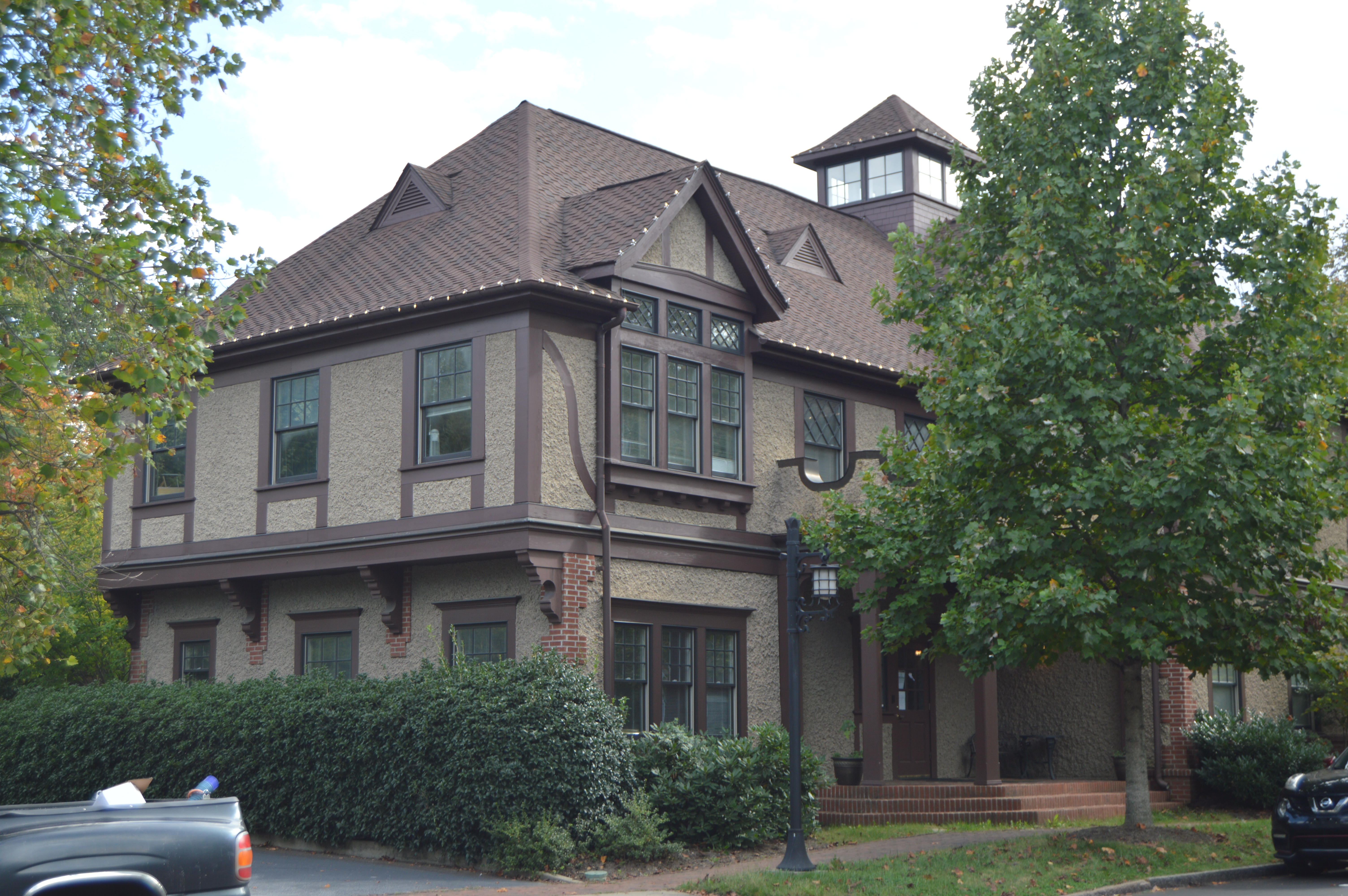 Front and northern side of World News Group offices, located on All Souls Crescent at Angle Street in the Biltmore Village neighborhood of Asheville, North Carolina, United States.